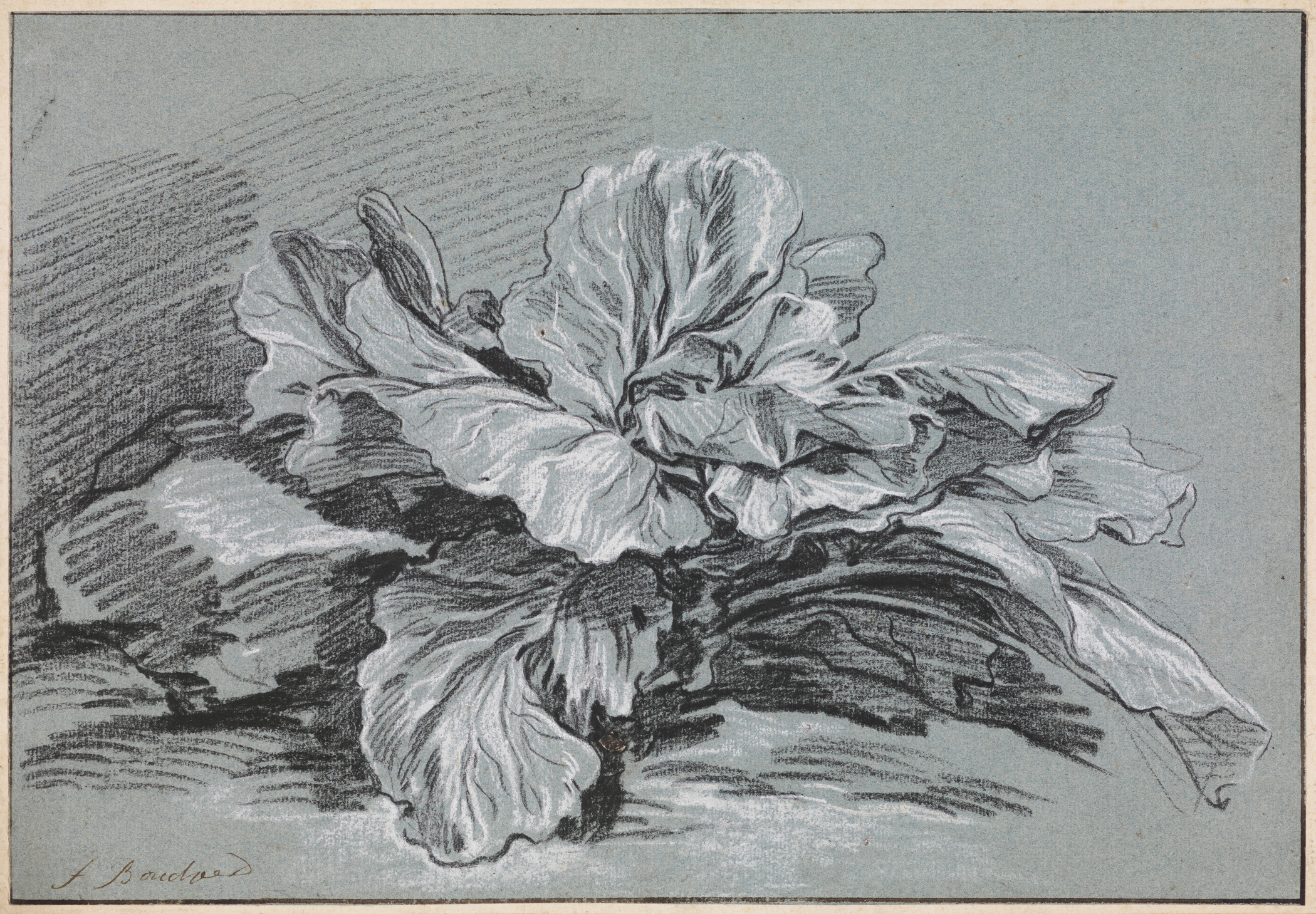 circa 1735 Drawings Black chalk with white heightening on blue paper Purchased with funds provided by the Joseph B. Gould Foundation and gift of the 2005 Drawings Group in honor of the museum's 40th anniversary (M.2005.97) Prints and Drawings